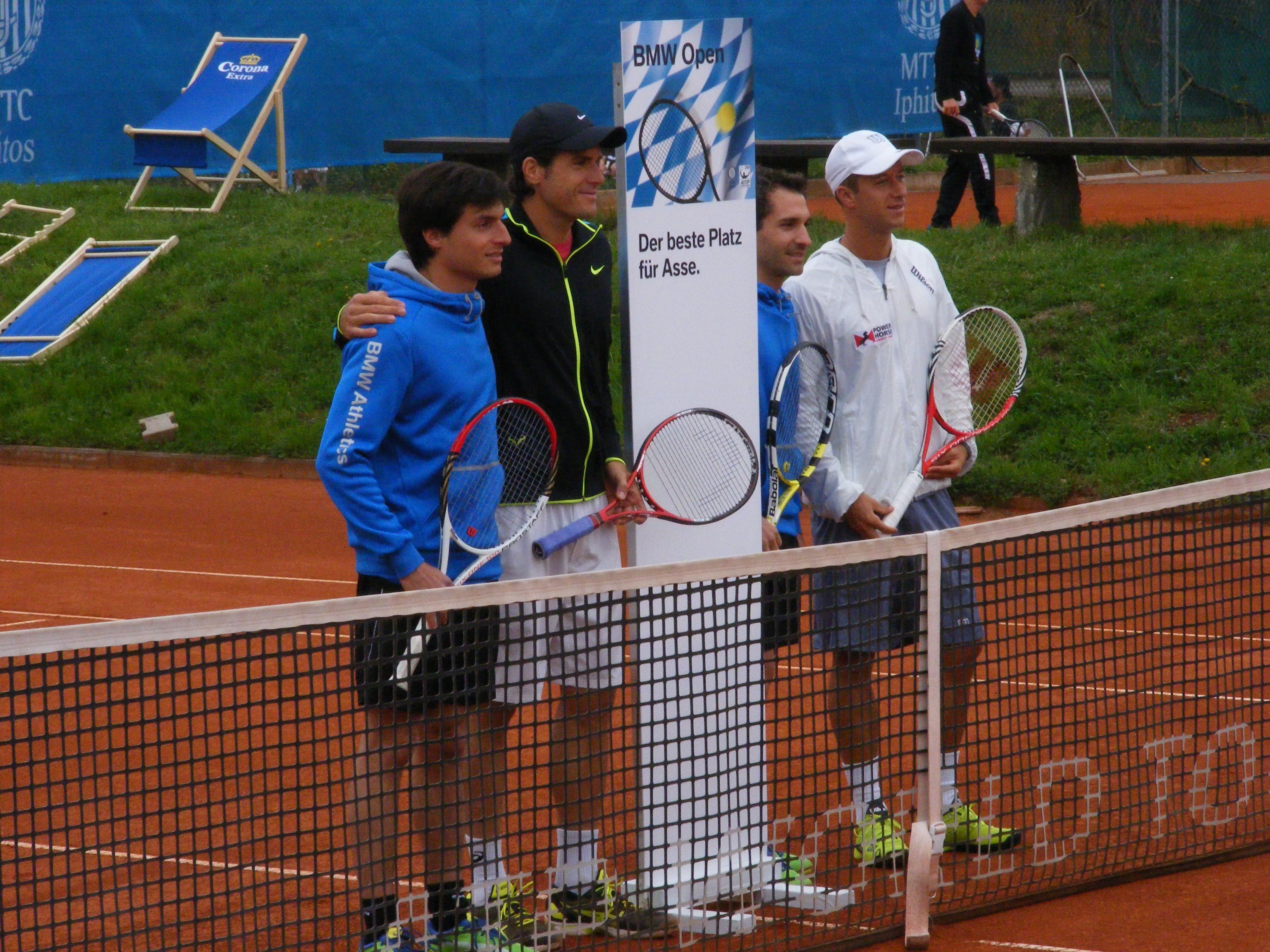 exhibition match between DTM stars Bruno Spengler and Timo Glock with partners Tommy Haas and Philipp Kohlschreiber